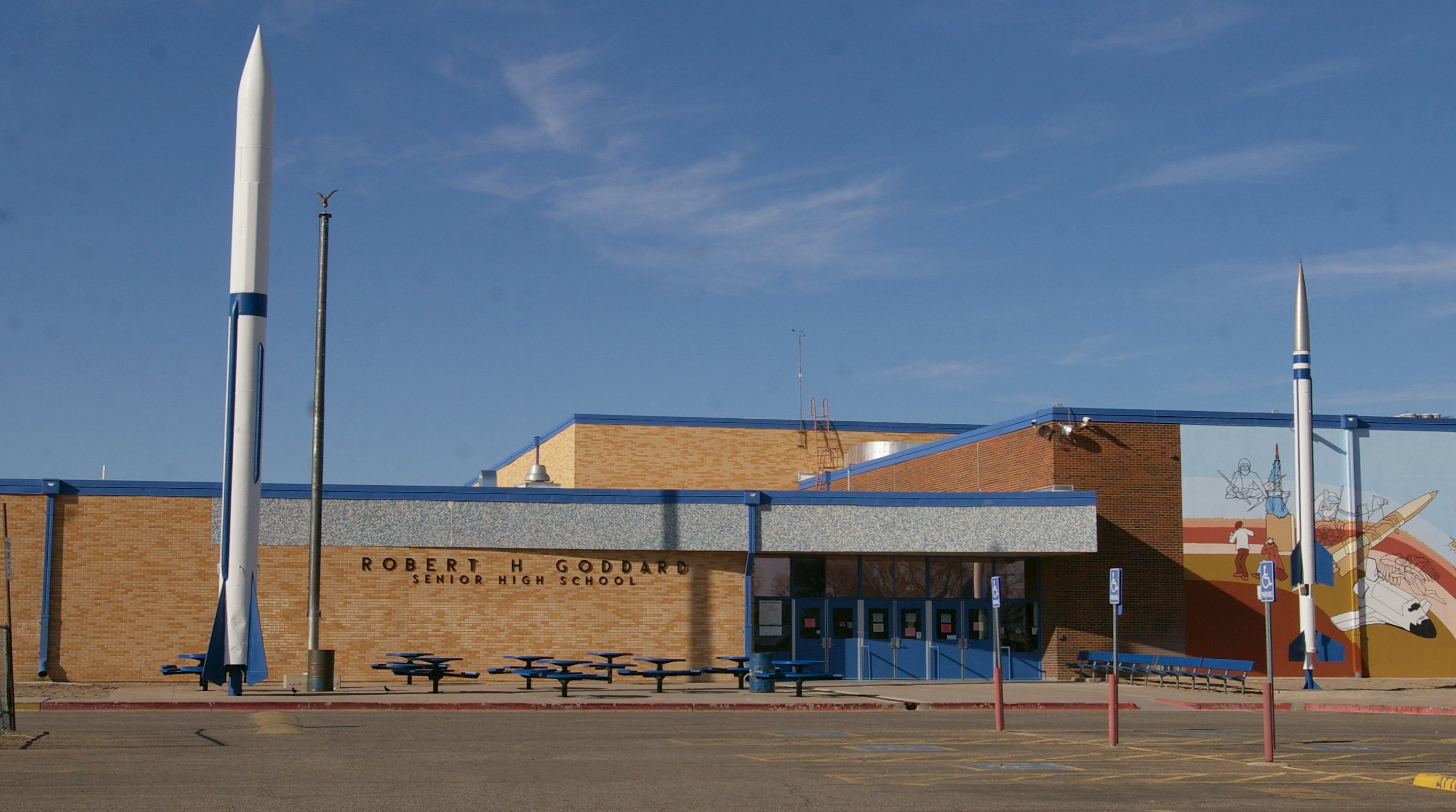 Robert Goddard High School in Roswell, NM. The school is named after the famous early researcher in rocketry.